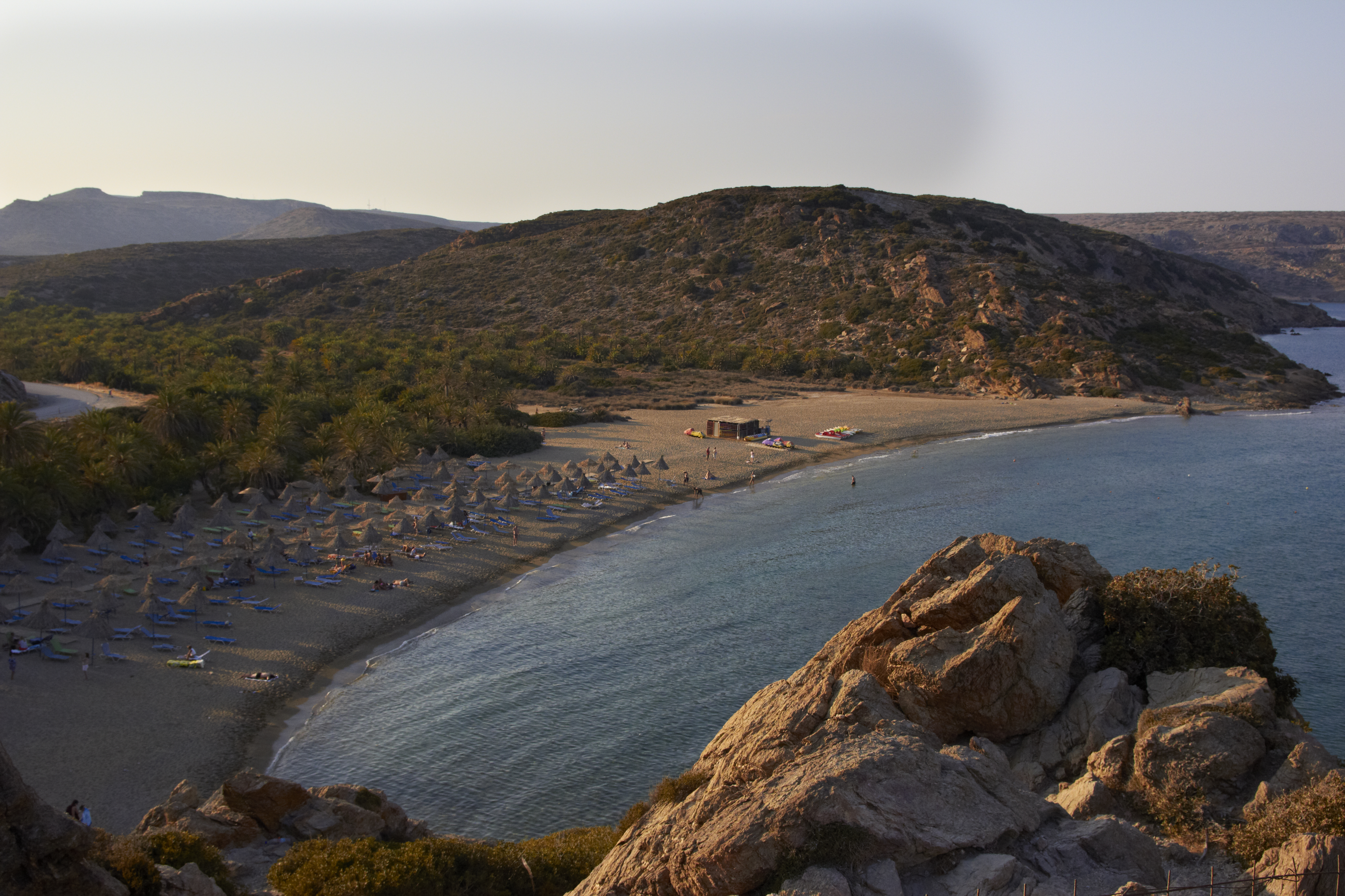 Vai, Crete, Greece